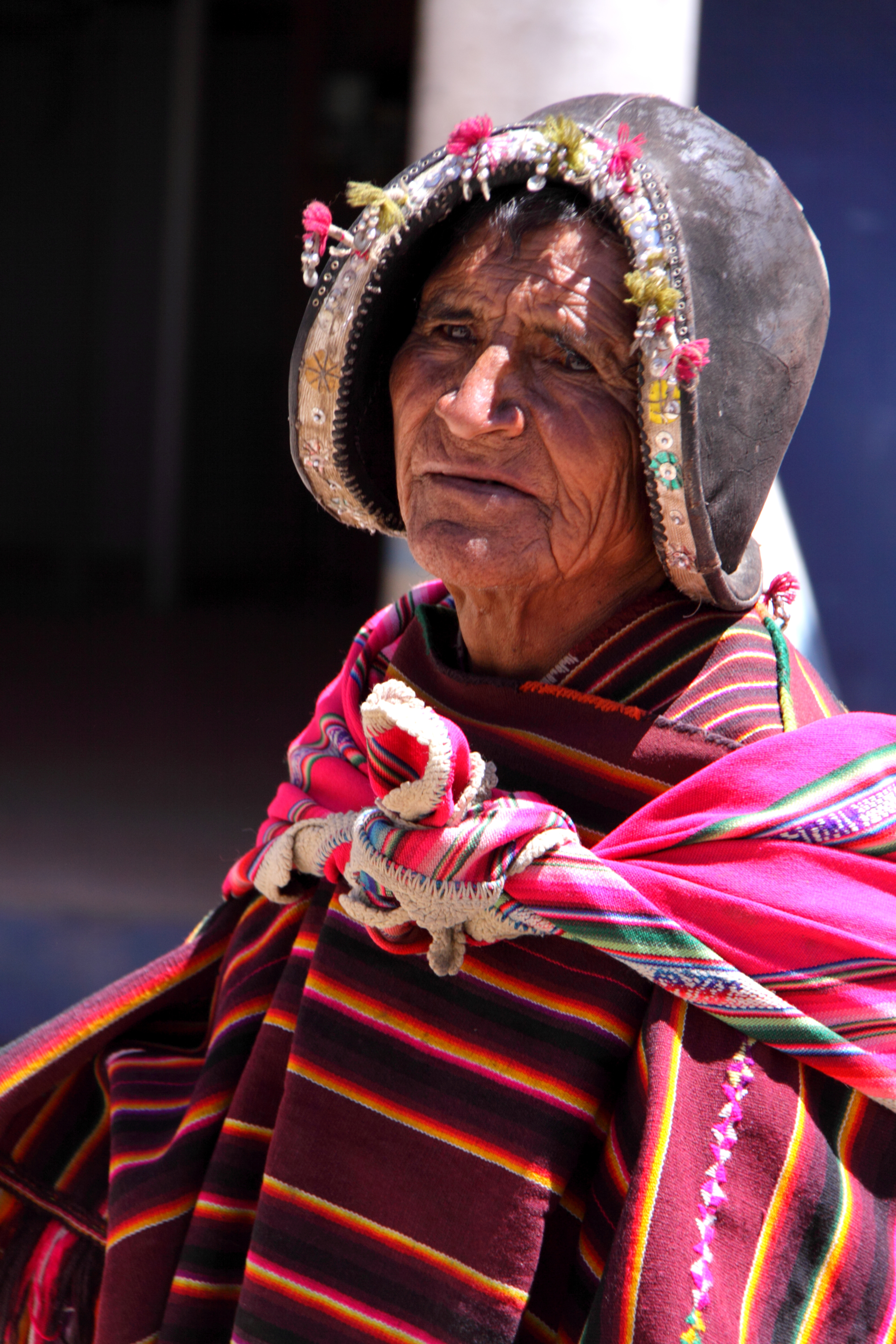 bolivia, tarabuco, men in traditional dress